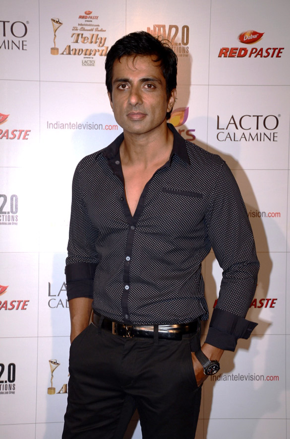 colors indian telly awards